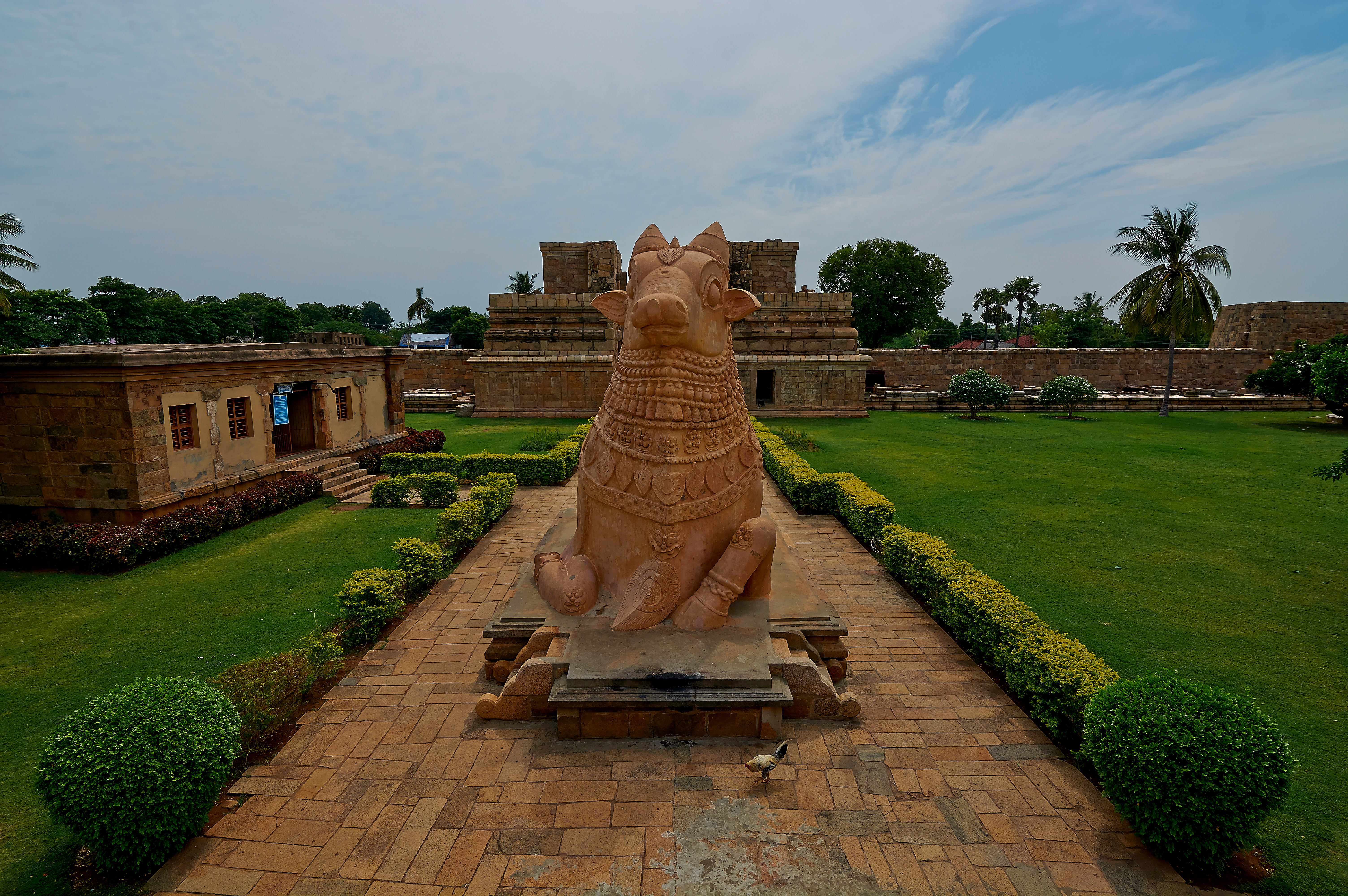 View of Nandhi at Brihadesswara Temple,Gangaikondacholapuram in perumbalur district.